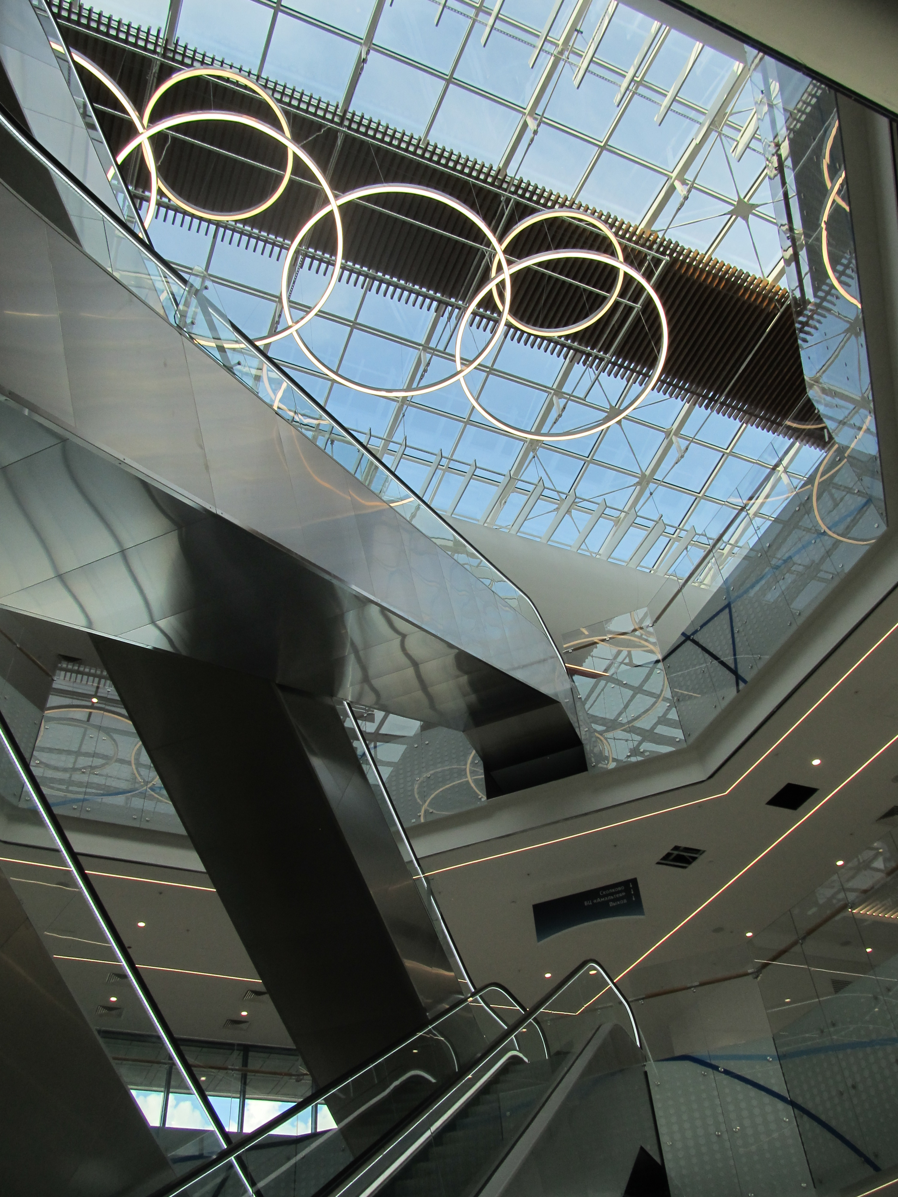 Long gallery and escalators of Skolkovo Innovation Centre railway platform (to Skolkovo Innovation Centre)